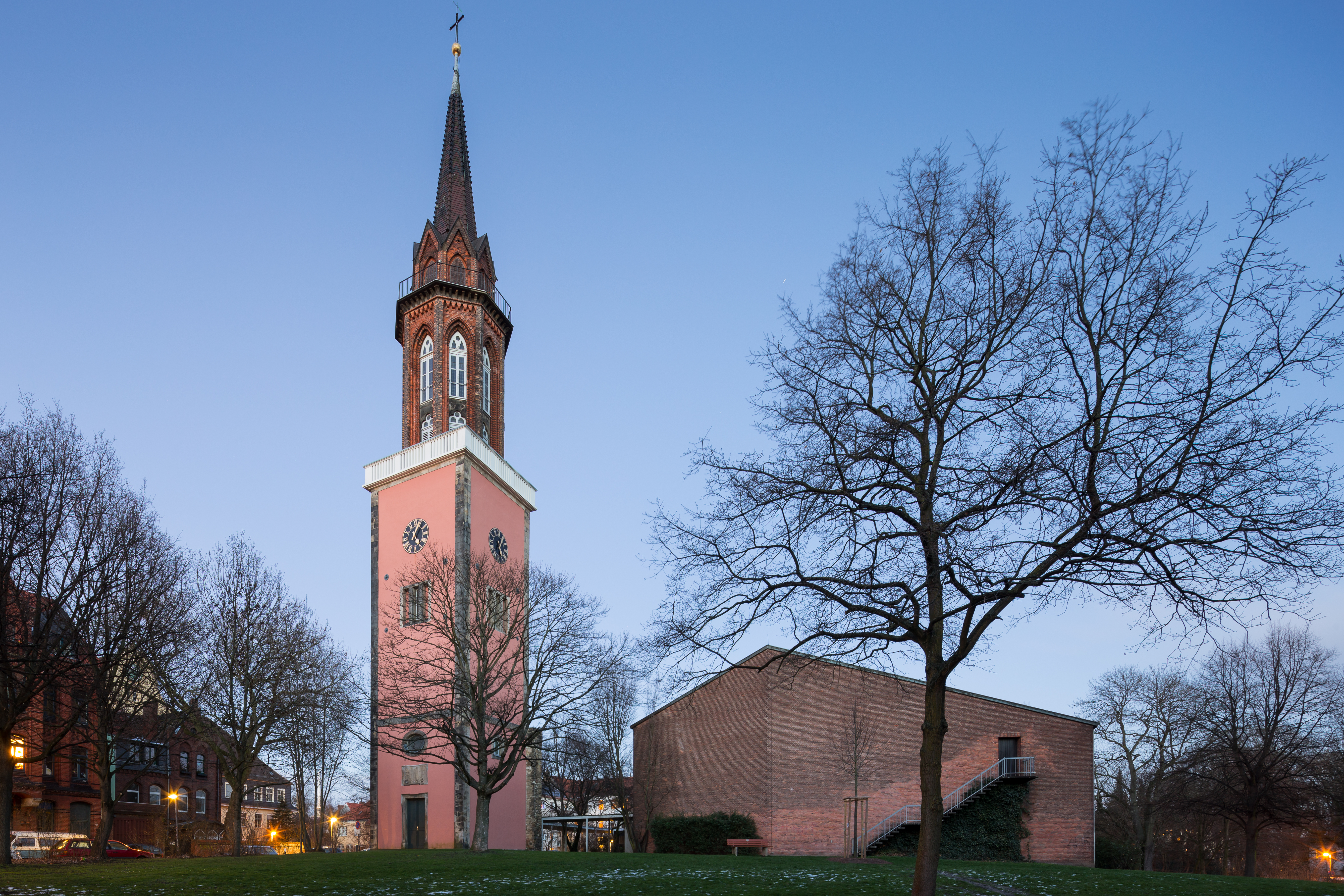 Martinskirche church located at An der Martinskirche in Linden-Mitte quarter of Hannover, Germany.